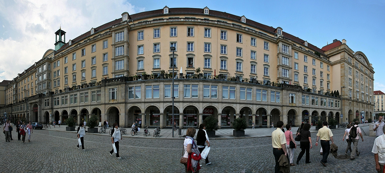 Dresden: this image shows the western side of the Altmarkt. The house was built 1953-56.